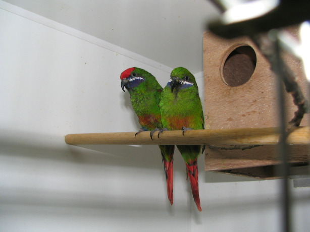 Plum-faced Lorikeet (also known as the Whiskered Lorkeet). A pair in a cage with a nestbox.